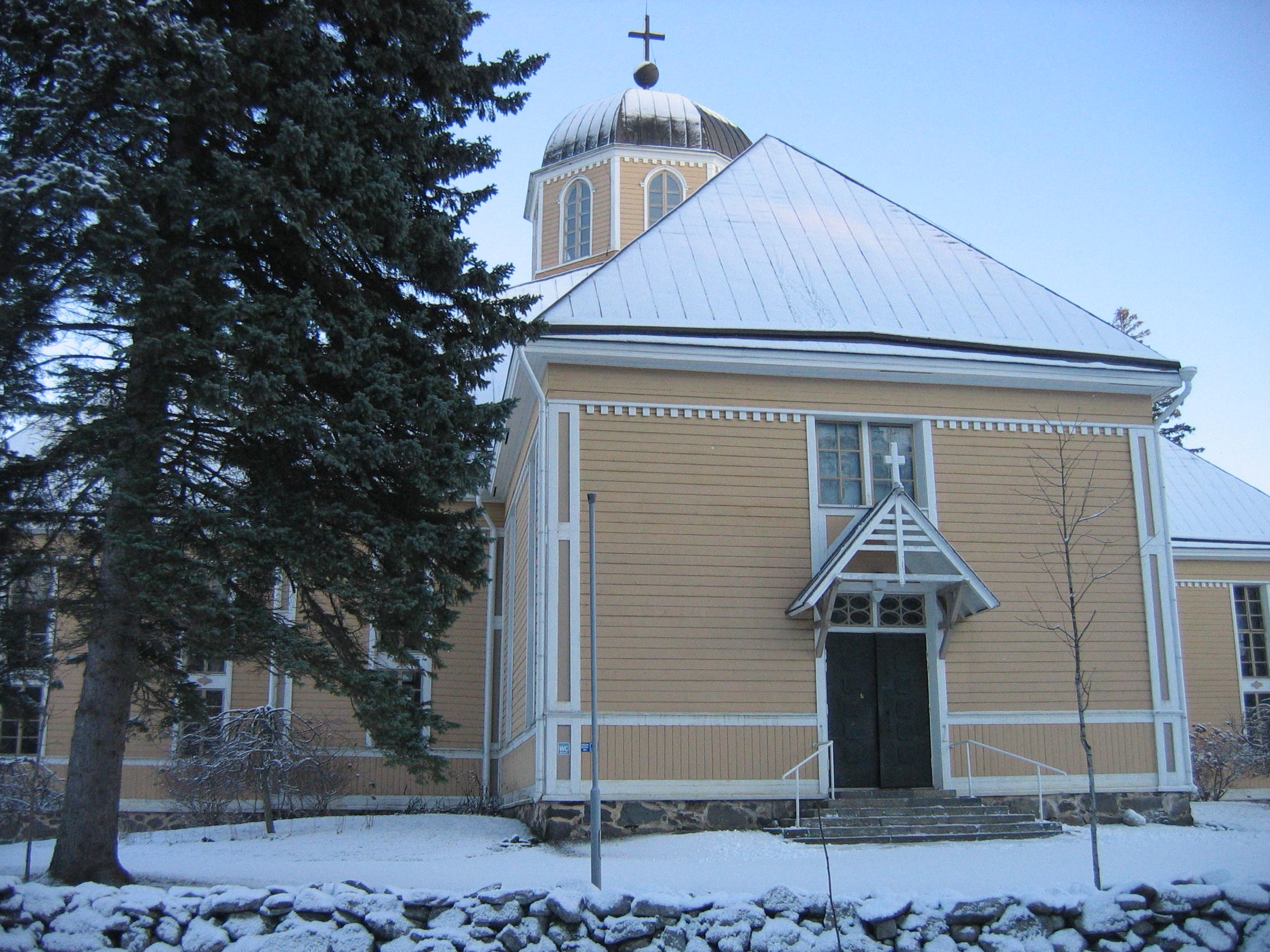 Church of Parikkala municipality centre, Finland